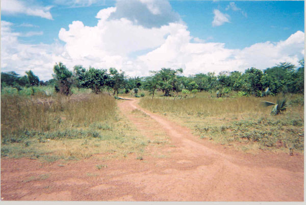 Rumbek, Sudan: The area immediately at the north end of the runway, now safe from the humanitarian impact of unexploded ordnance, which will be leveled and prepared for the lengthening and widening of the runway.